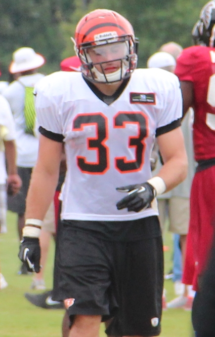 Rex Burkhead at training camp, 2013